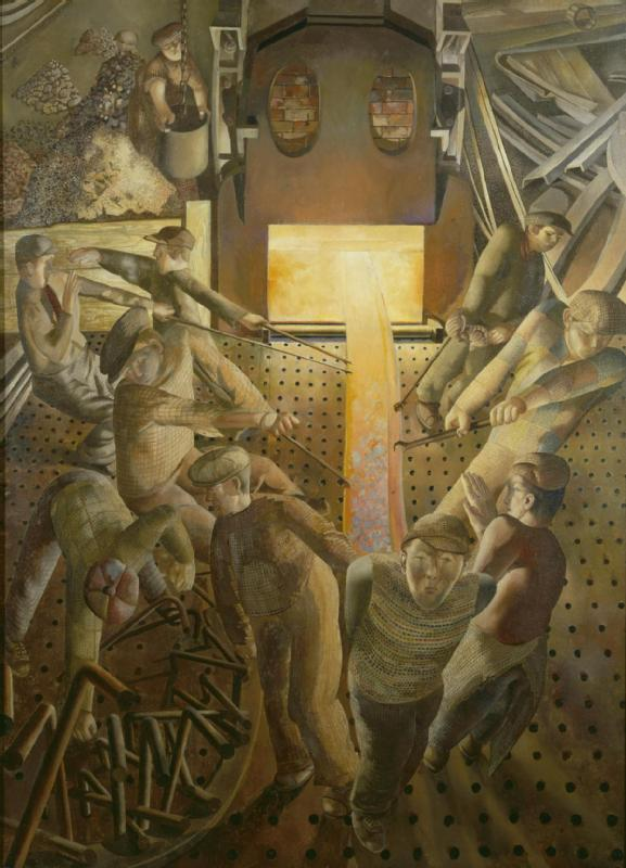 A group of workers pull a red-hot steel section from the mouth of a furnace.A man tends the furnace in the upper left corner and a pile of angle irons are in the upper right.